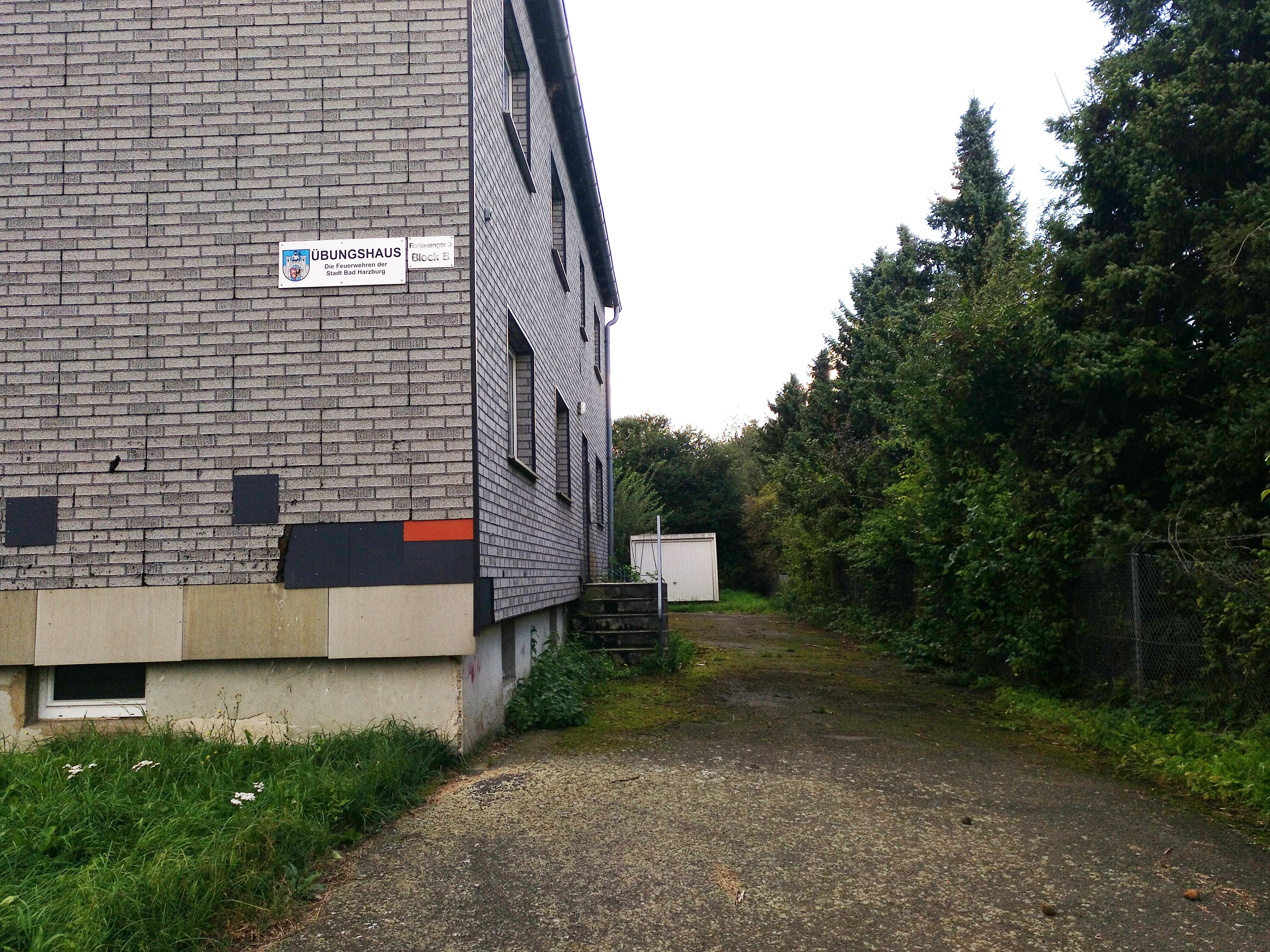 Exercise house of the fire departments of Bad Harzburg, Germany.